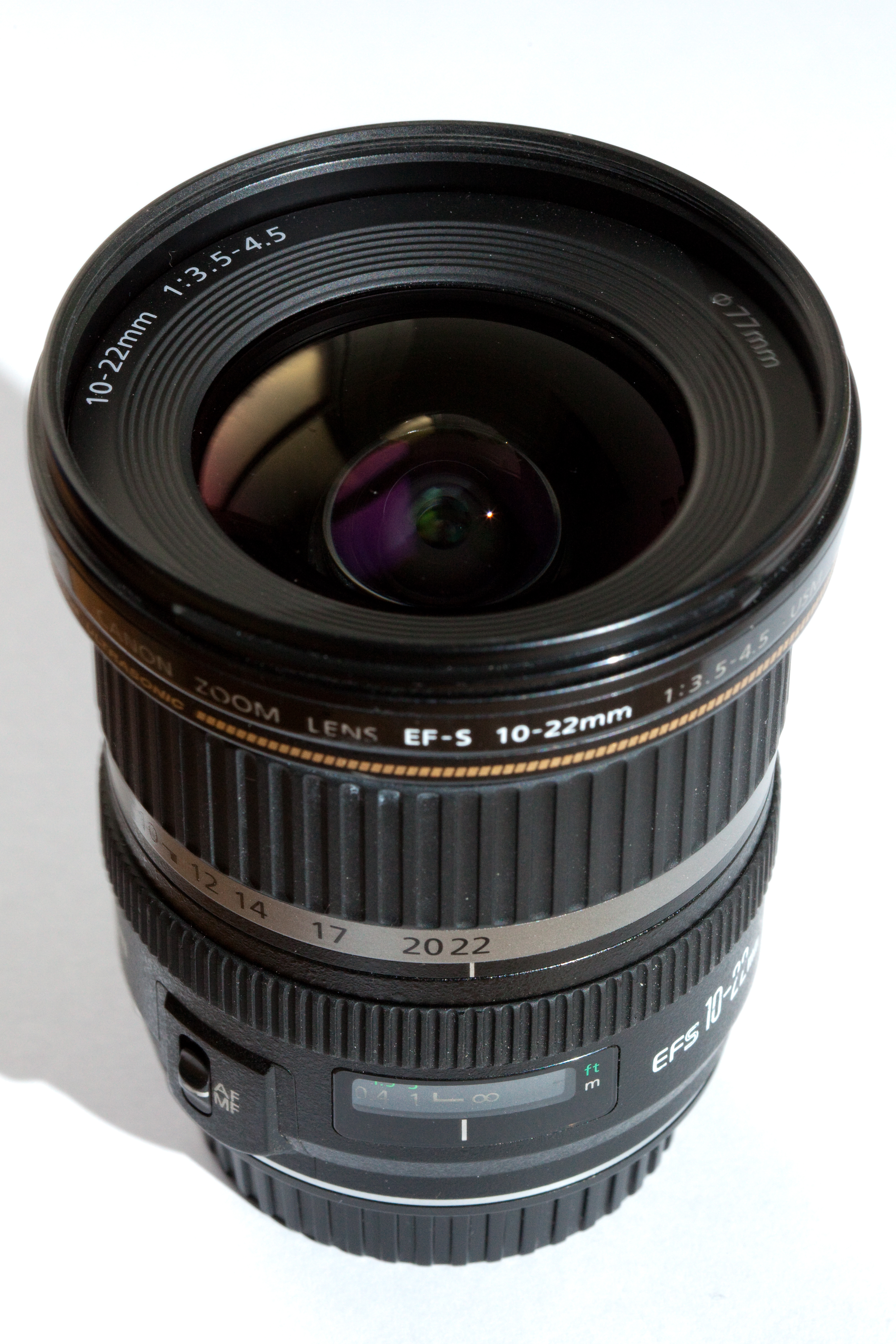 A Canon EF-S 10-22mm F3.5-4.5 USM lens